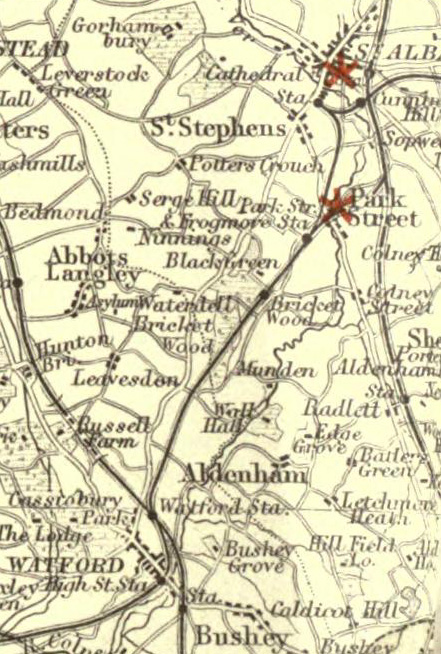 Detail of the Victoria history of the County of Hertford map showing the Abbey Line